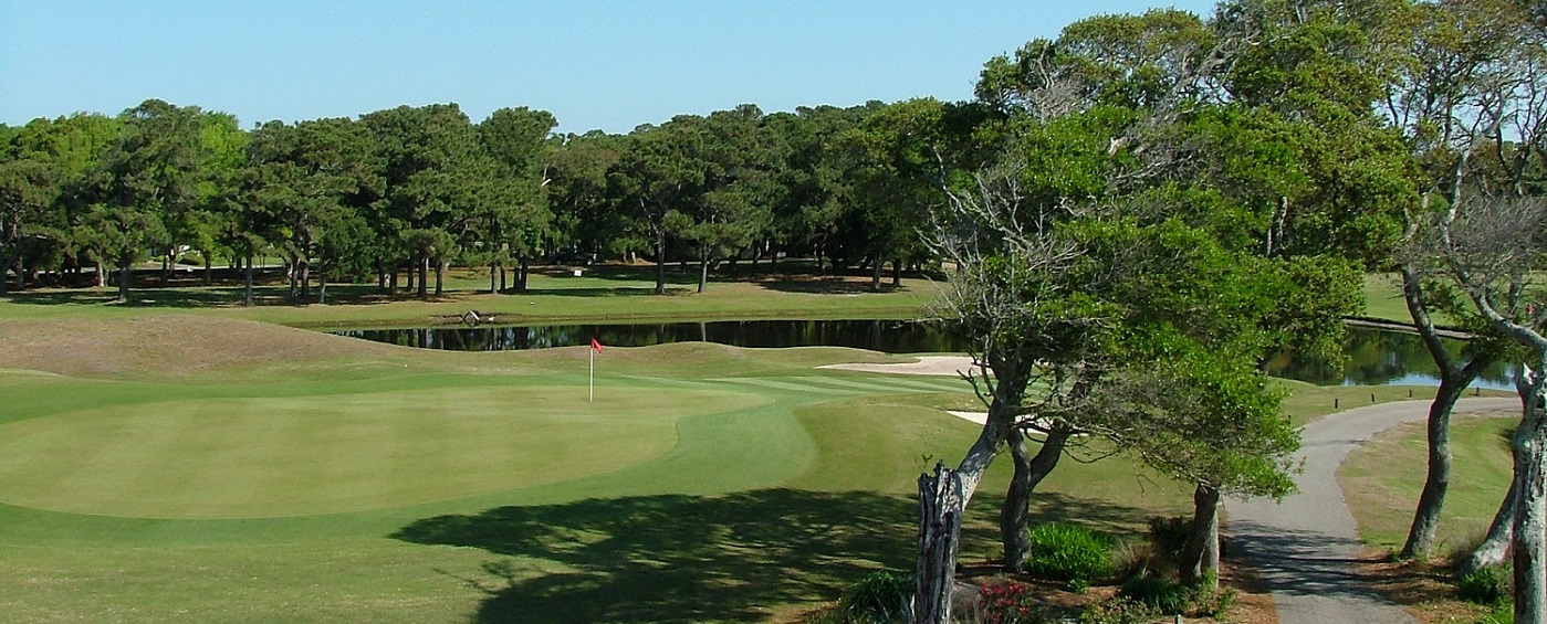 Looking north at the 18th green and environs